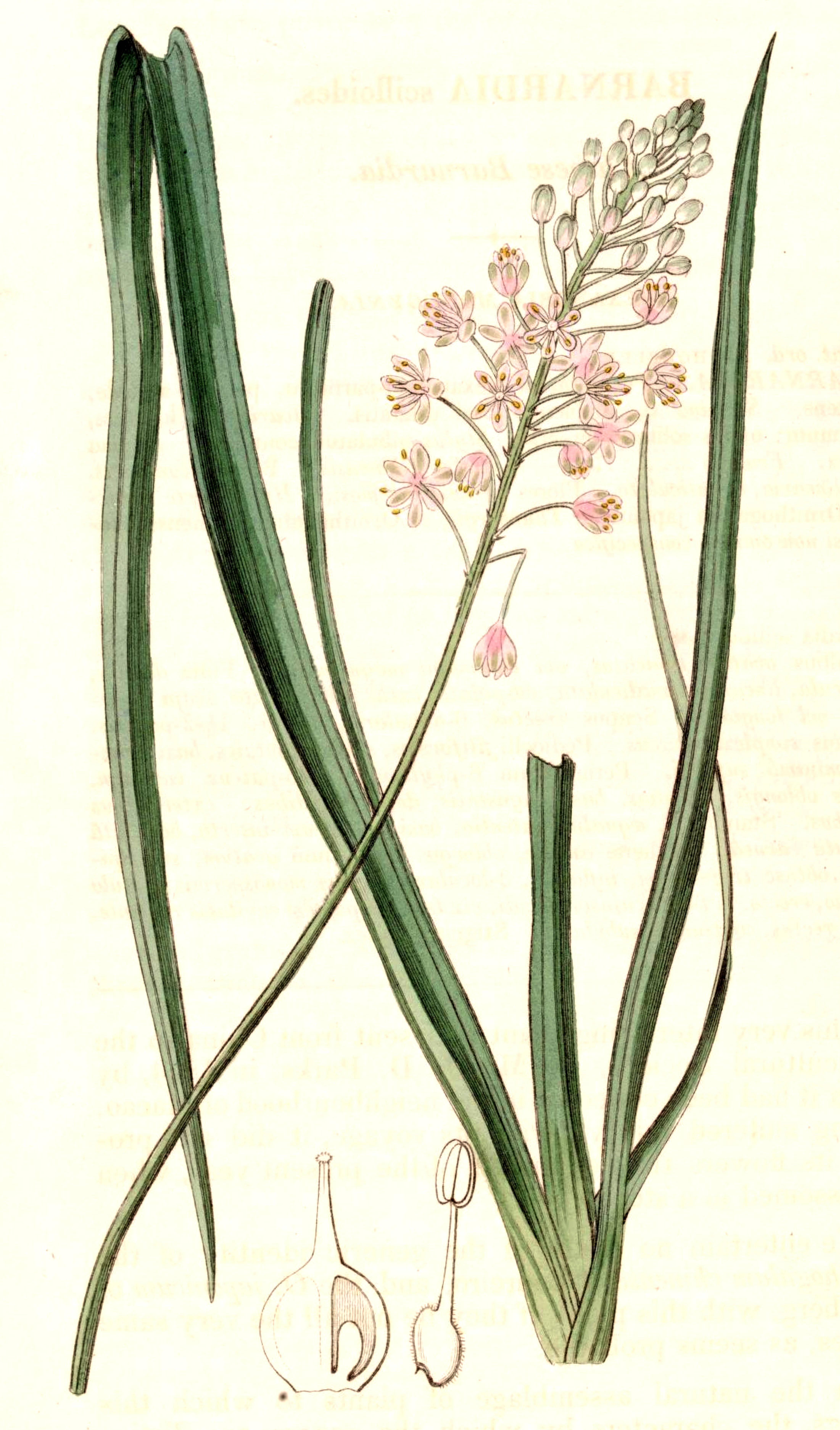 Barnardia japonica